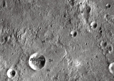 Alfraganus lunar crater as seen from Earth with satellite craters labeled